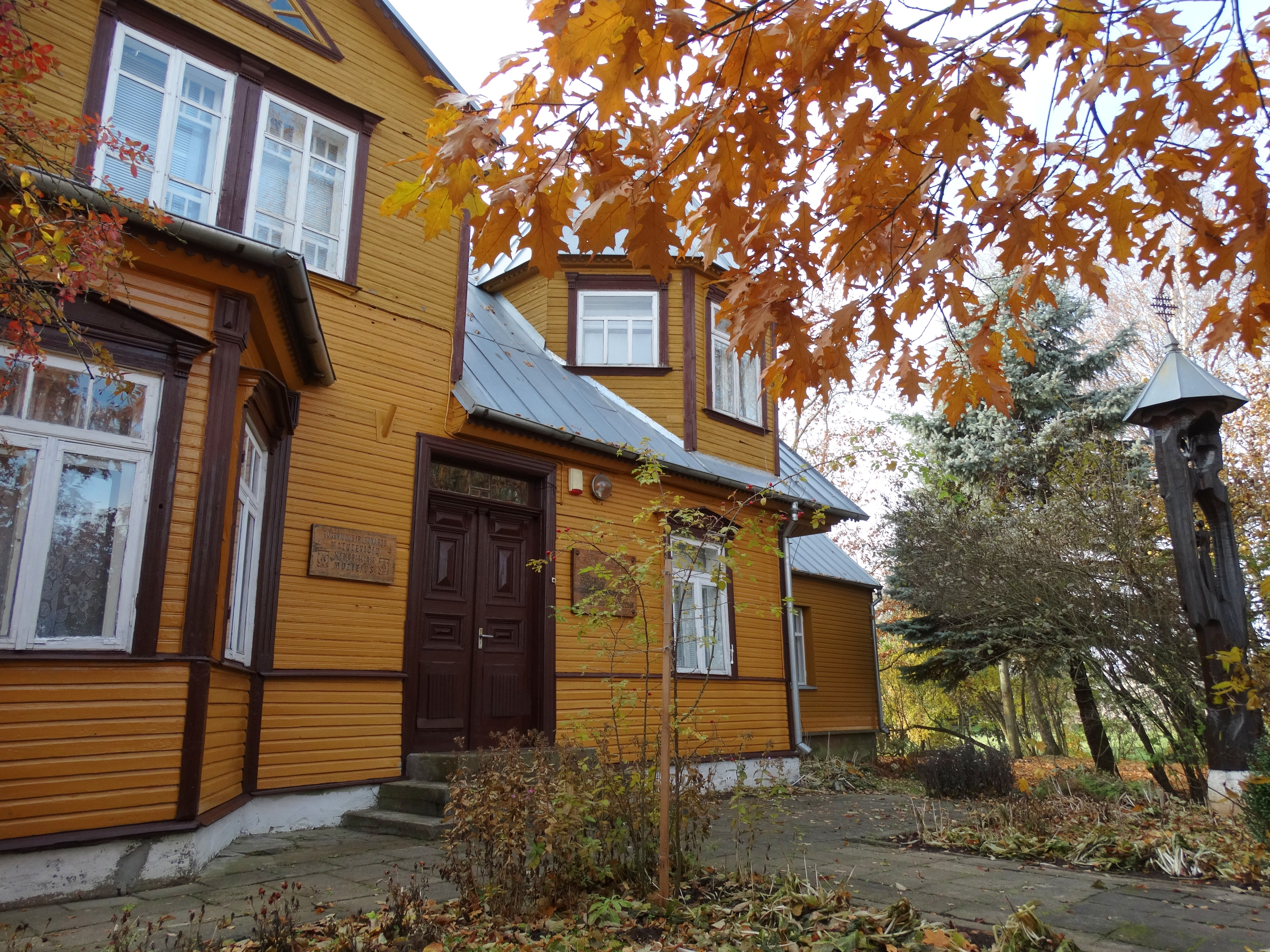 Matuzevičius memorial museum, Krinčinas, Pasvalys District, Lithuania